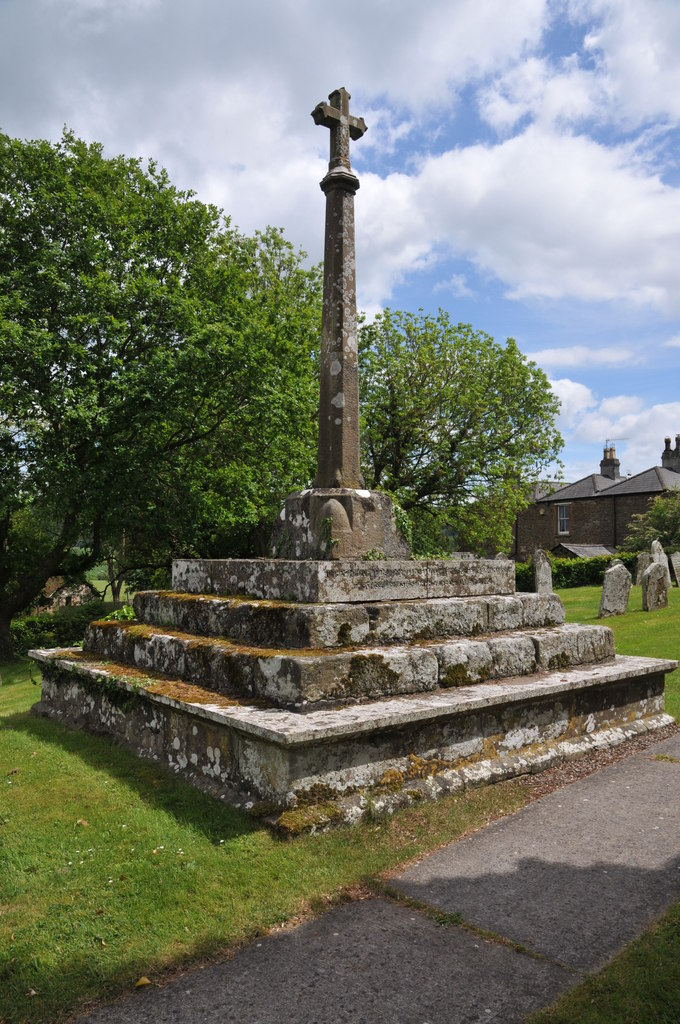 Stone cross in the parish churchyard of St Thomas Becket, Wolvesnewton, Monmouthshire. A Mediæval churchyard cross, restored about 1920 as a First World War monument.